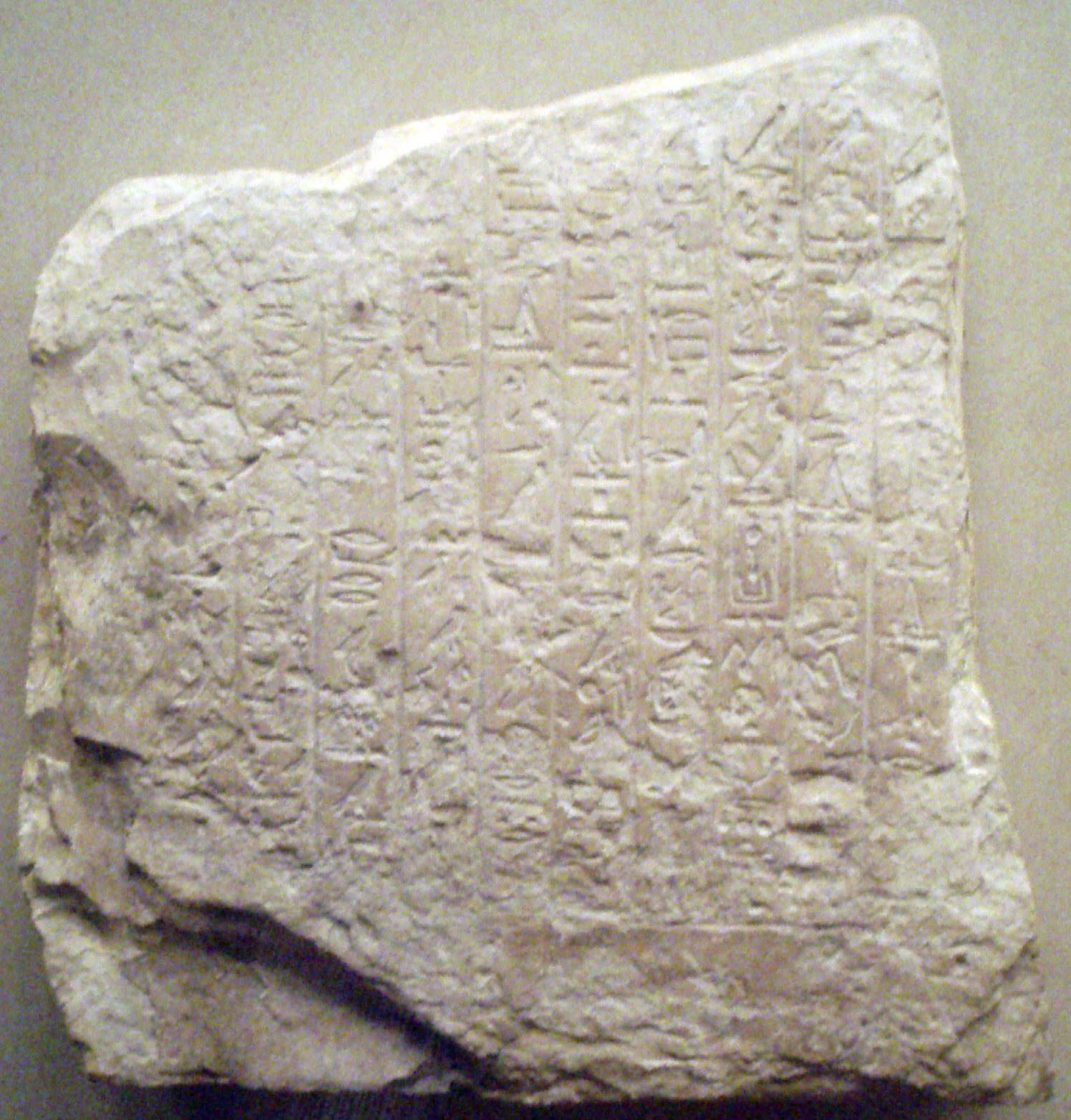 A decree of the pharaoh Pepi II, granting immunity to the temple of Min from official exactions. 6th dynasty, circa 2246-2152 B.C.